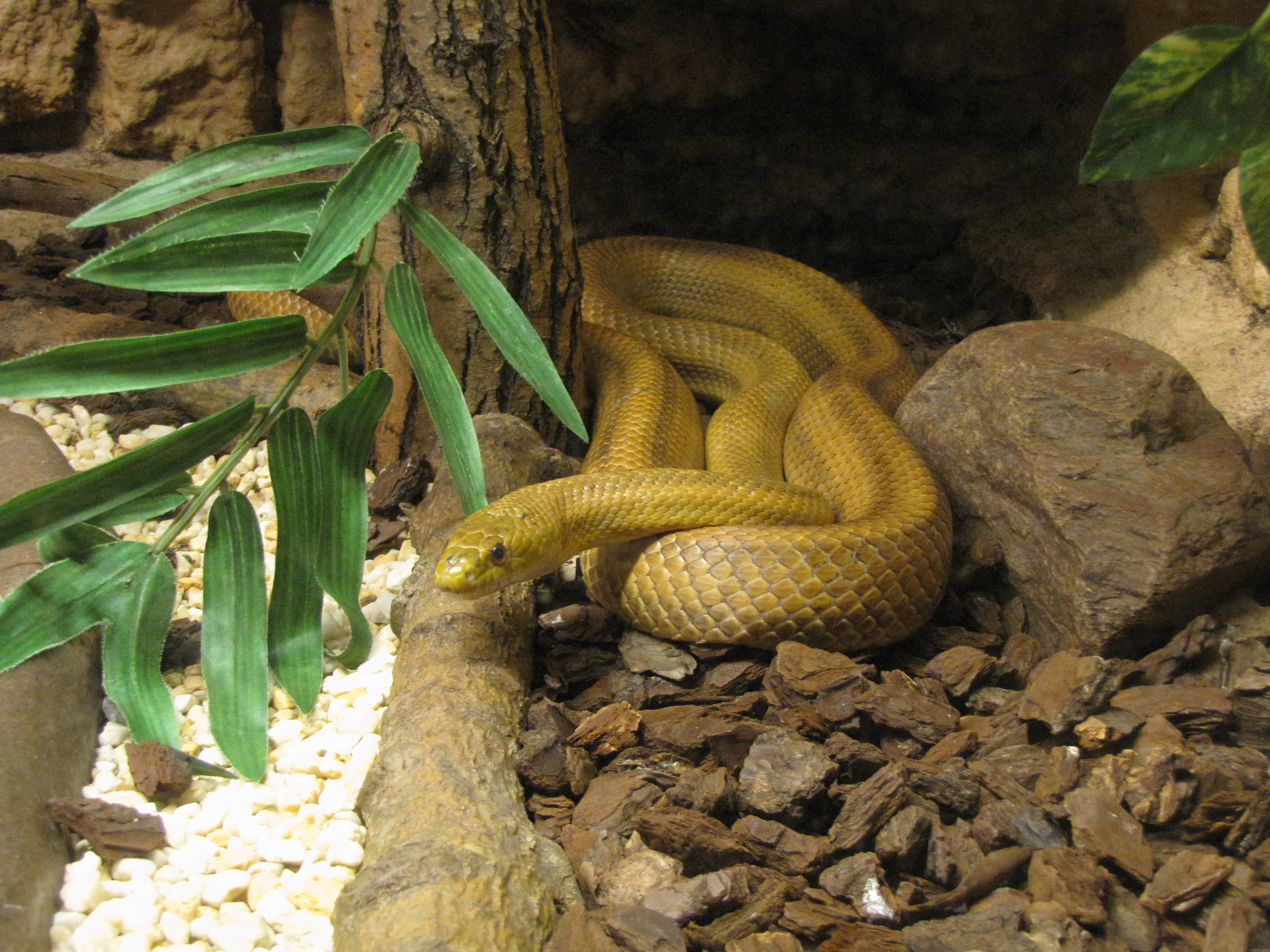 Everglades rat snake (Elaphe obsoleta rossalleni) in Helsinki Tropicario Zoo.